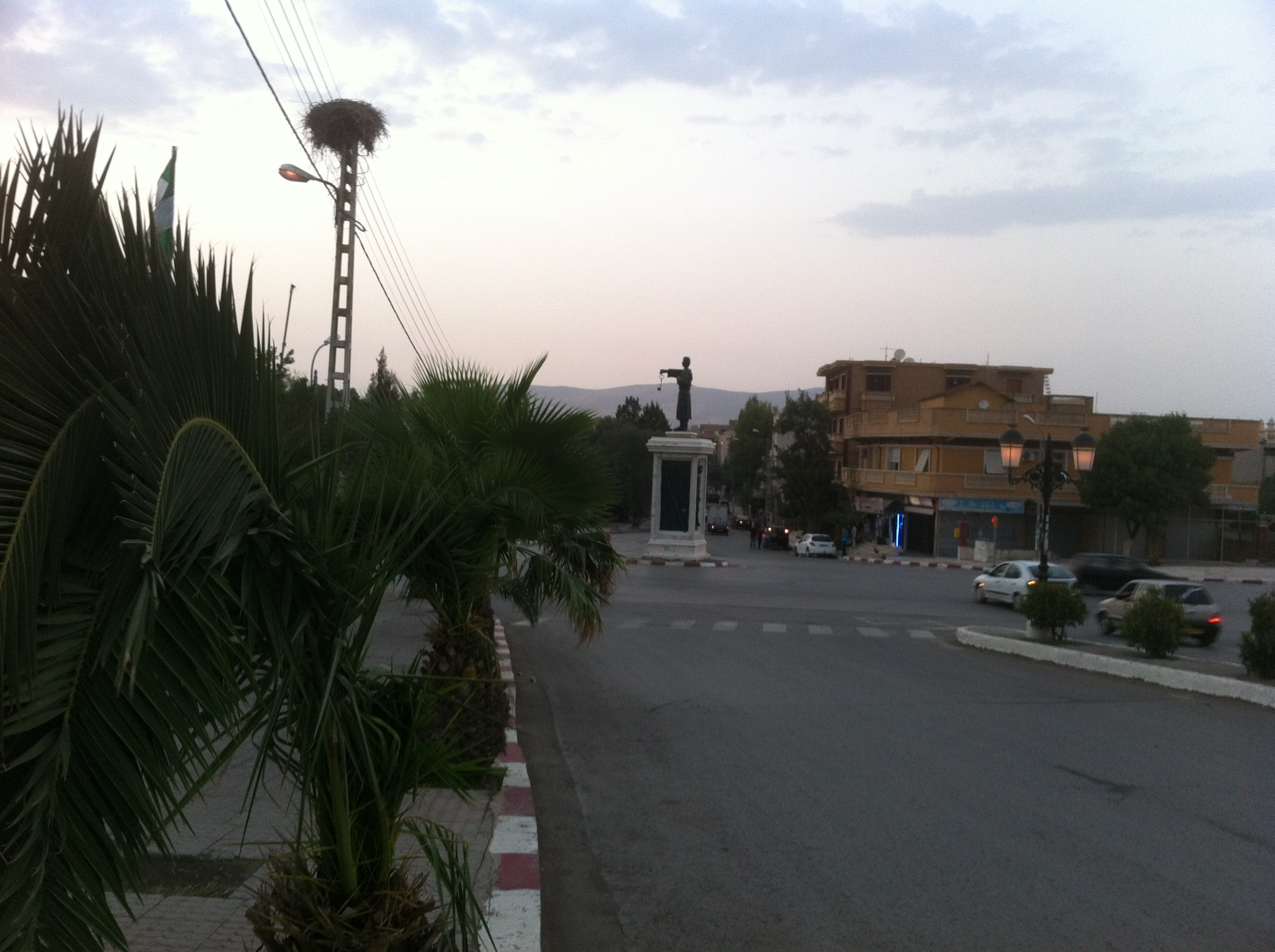 Bordj Bou Arréridj (Algeria), a view of the downtown